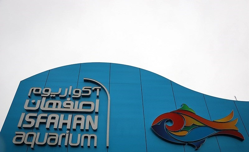 Isfahan aquarium